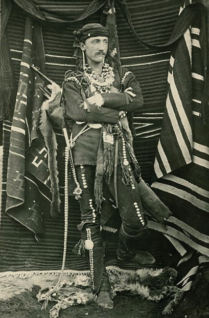 Frank Hamilton Cushing in Zuni costume.